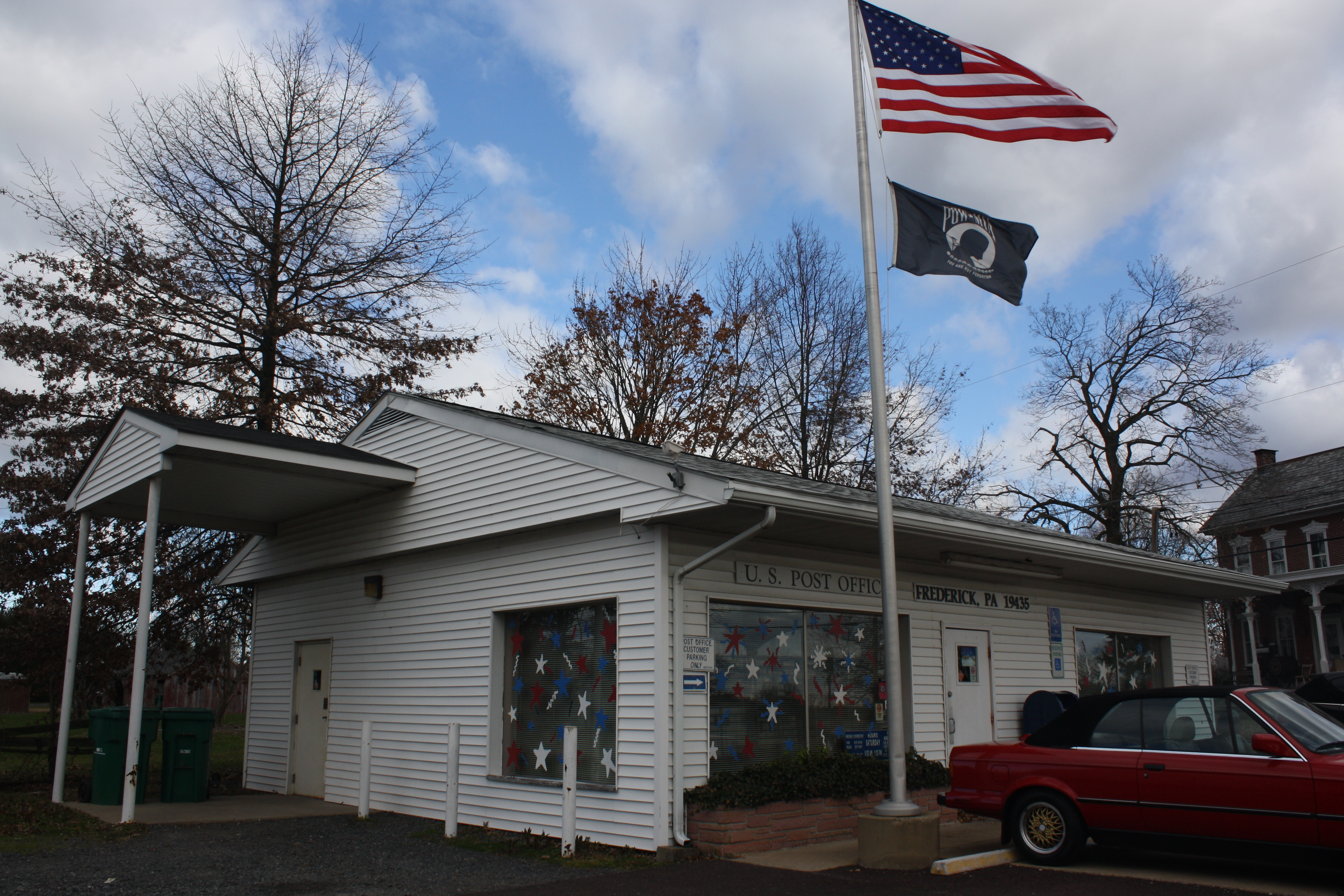 Post Office in Frederick village (postal code 19435) in Upper Frederick Township and New Hanover Township, Montgomery County, Pennsylvania. Northern corner of Hoffmansville and Renninger Rds.